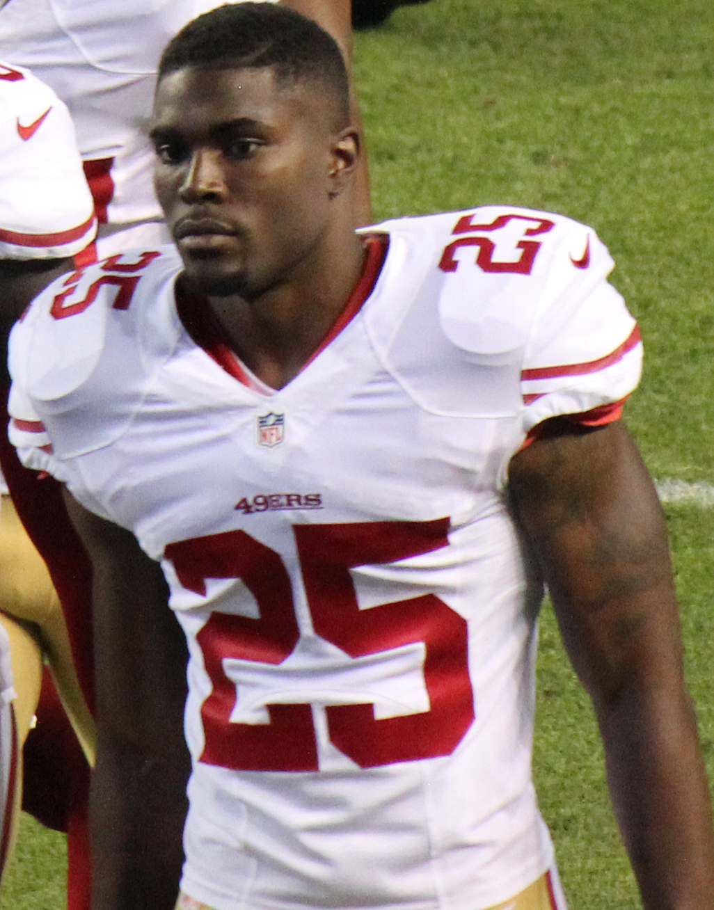 Jimmie Ward, a player on the National Football League.